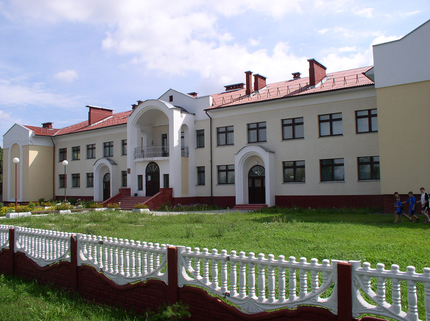 Scool of arts in Zhabinka